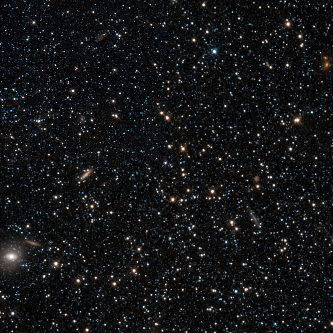 The NASA/ESA Hubble Space Telescope has taken this image of the Phoenix Dwarf Galaxy, which is located 1.4 million light-years away from Earth. It is located in the constellation of Phoenix in the southern sky. The object, a dwarf irregular galaxy, features younger stars in its inner regions and older ones at its outskirts. Dwarf galaxies are small galaxies composed of a few billion stars, compared to fully-fledged galaxies which can contain hundreds of billions of stars. In the Local Group, there are a number of such dwarf galaxies orbiting the larger galaxies such as the Milky Way or the Andromeda Galaxy. They are thought to have been created by tidal forces in the early stages of the creation of these galaxies, or as a result of collisions between galaxies, forming from ejected streams of material and dark matter from the parent galaxies. The Milky Way galaxy features at least 14 satellite dwarf galaxies orbiting it. Because of their shape, dwarf irregulars have often been mistaken for globular clusters: they do not feature a bulge or spiral arms like larger galaxies. However, their importance in terms of cosmology is in stark contrast to their unspectacular shapes, as their chemical makeup and high levels of gas are believed to be similar to those of the earliest galaxies that populated the Universe. They are thought to be contemporary versions of some of the remote galaxies observed in deep field galaxy surveys, and can thus help to understand the early stages of galaxy and star formation in the young Universe. The galaxy was discovered in 1976 by Hans-Emil Schuster and Richard Martin West. Hans-Emil Schuster was acting director of ESO’s La Silla Observatory in Chile and was involved in the selection and testing of the sites for the observatories of both La Silla and Paranal. His great contribution to astronomy and to ESO was recognised by the Chilean government last week when he was awarded the medal of the Order of Bernardo O’Higgins.